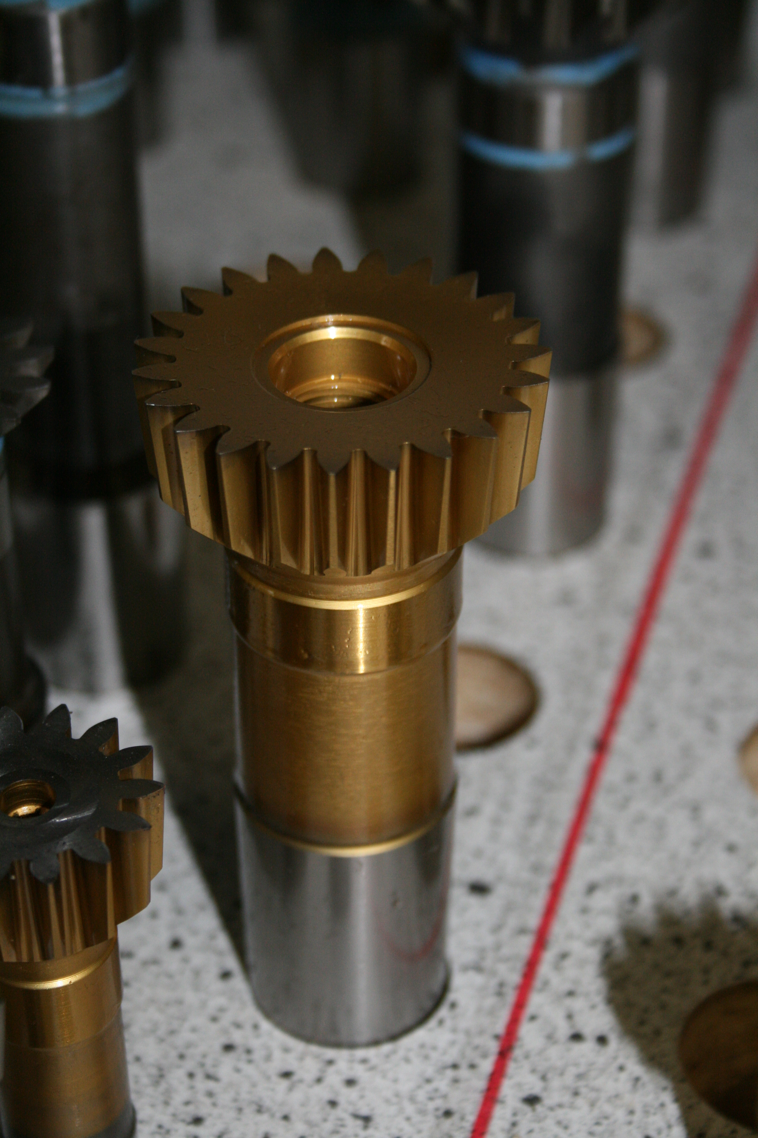 Shaping tool